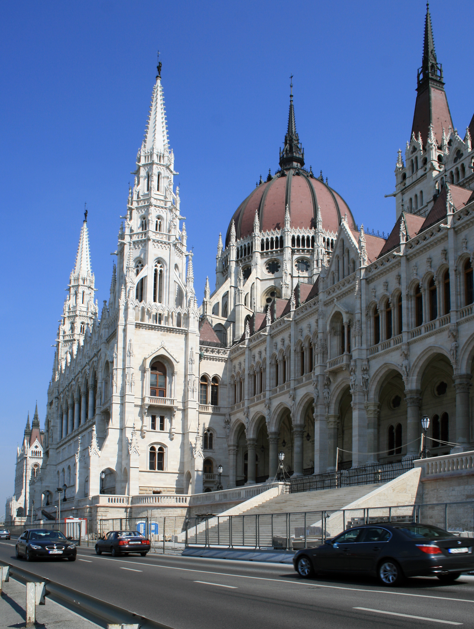 View on Parliament of Hungary from Danube bank, Budapest, Hungary